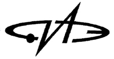 Obninsk Institute for Nuclear Power Engineering - Logo